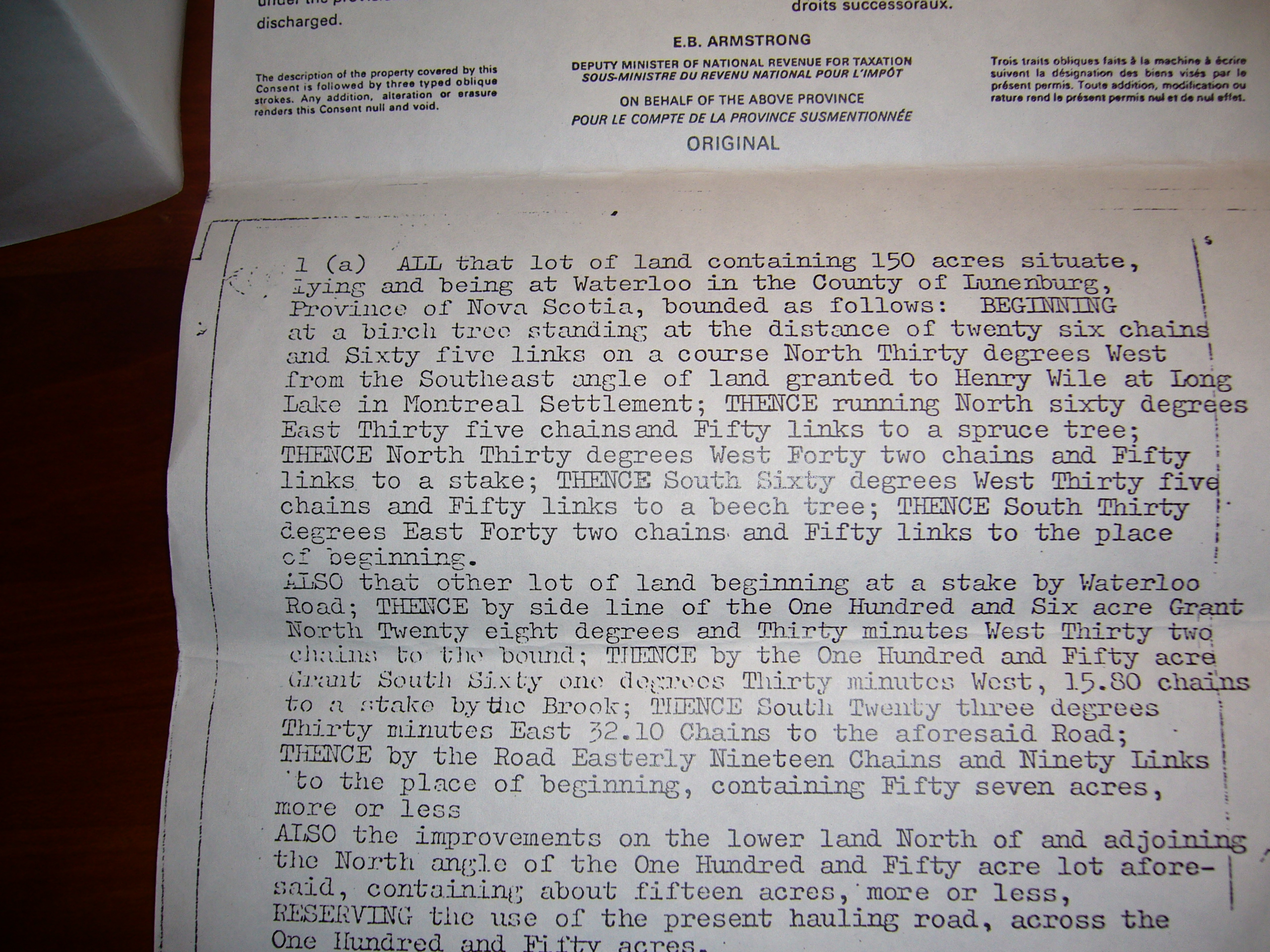 This is an image of a deed between two residents in Montreal Settlement. This primary source proves the existence of the formal use of the name.